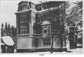 Sokłowsko, Poland (before 1945: Prussia) The Countess Rückler's Sanatory „Marienhaus” in the early 20th century.